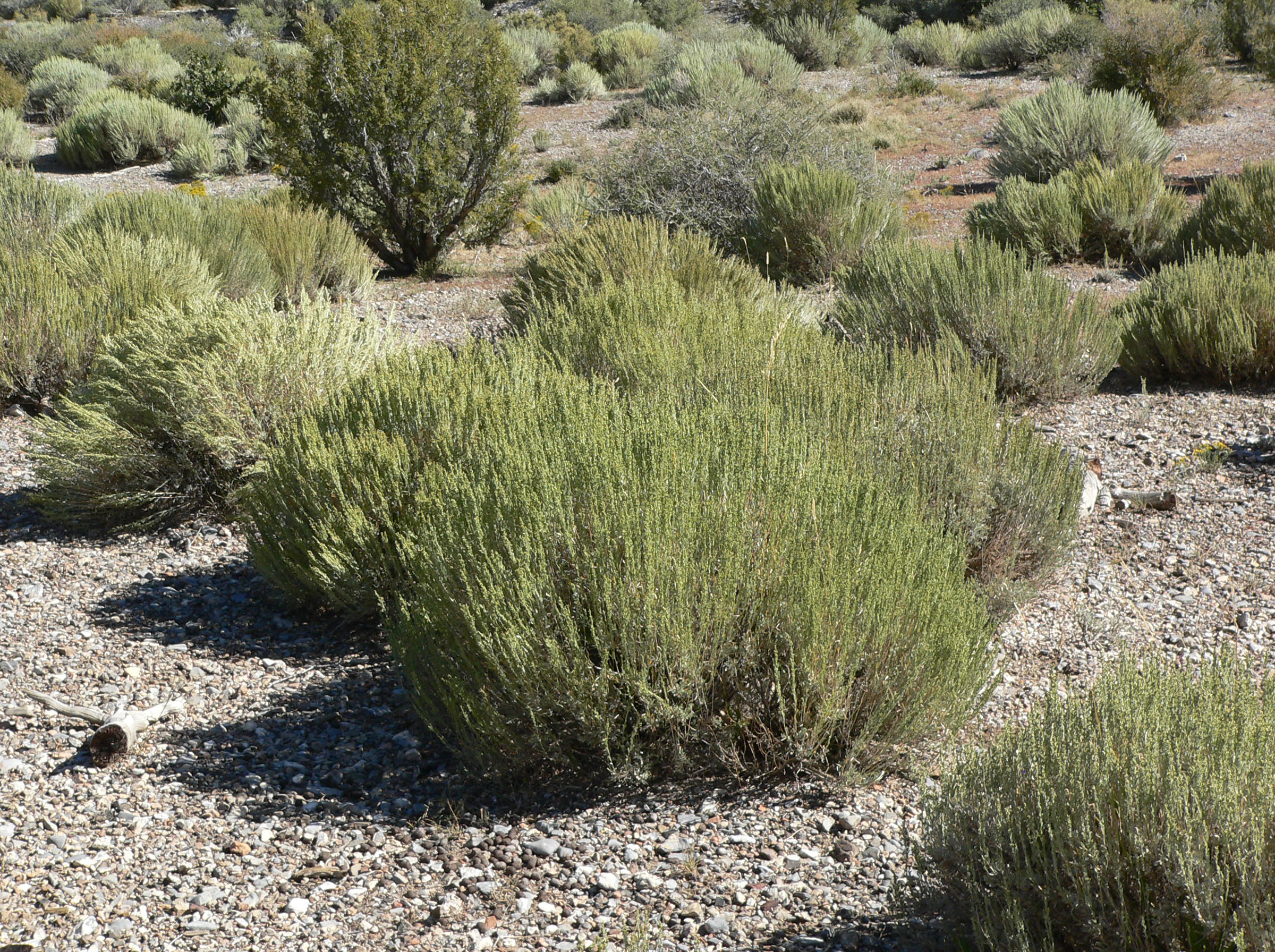 Artemisia nova on west side of Camp Bonanza Road, south of the Cold Creek community, Spring Mountains, southern Nevada (elev. about 1950 m)